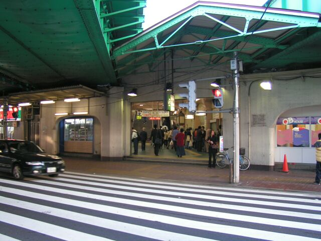 Entrance of Ōkubo Station